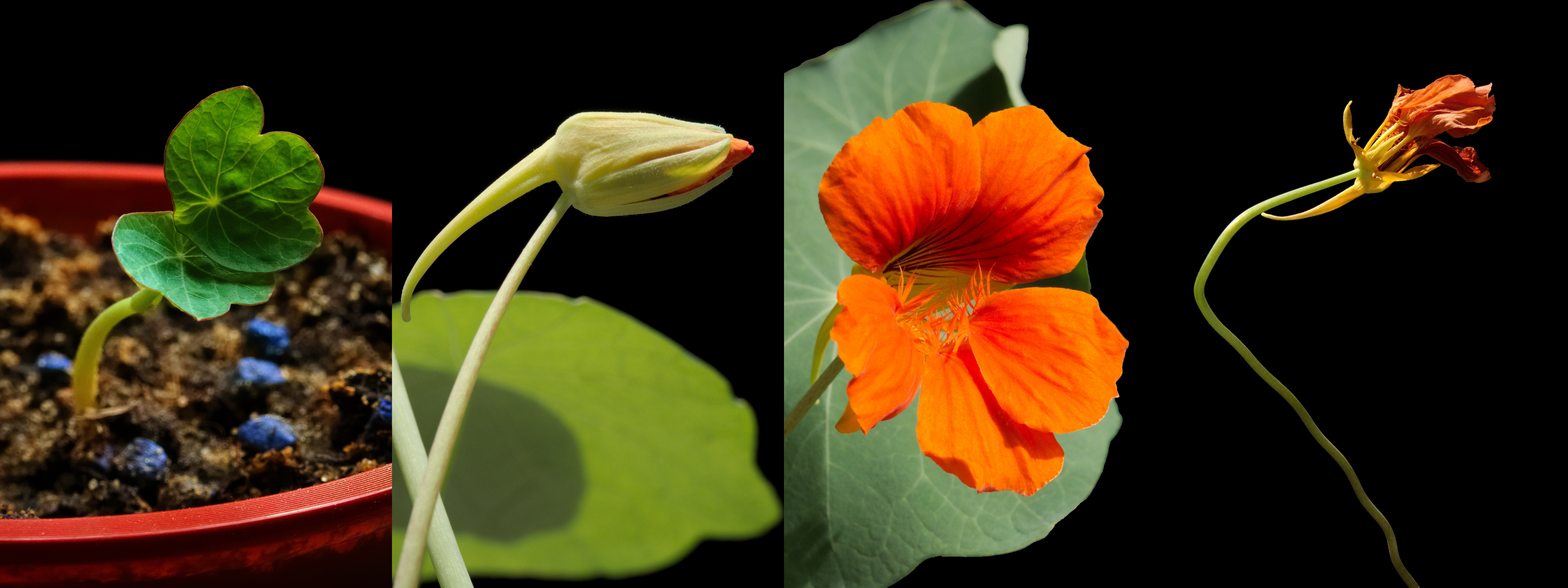 Tropaeolum majus L. Indian cress is a popular garden ornamental plant. The young seedling, the flower bud and the flower at the beginning and at the end of flowering.